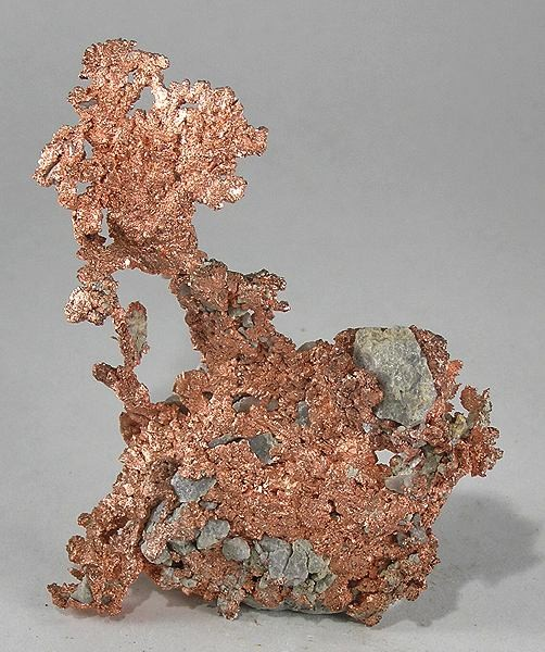 Copper Locality: Morenci, Copper Mountain District (Clifton-Morenci District), Shannon Mts, Greenlee County, Arizona, USA (Locality at ) Size: 12.4 x 8.8 x 4.5 cm. A large, sculptural specimen of penny-bright copper from Arizona - not a wimpy leaf, but quite substantial - with sparing matrix attachment that provides a pleasing accent.